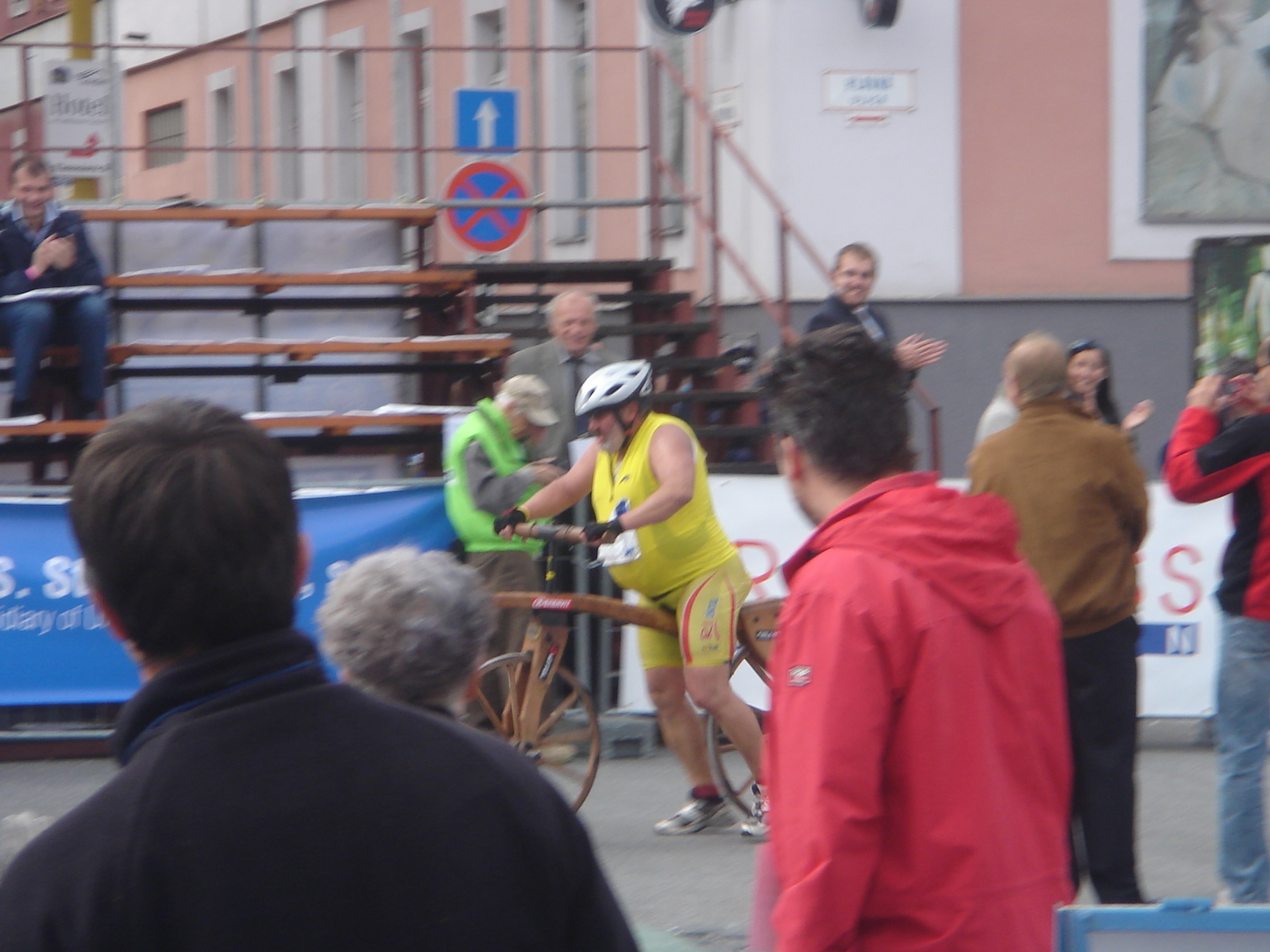 84th International Peace Marathon in Kosice, Slovakia